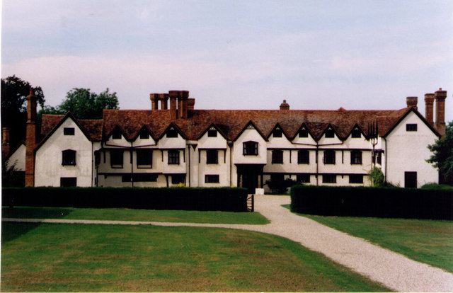 Ufton Court, Ufton Nervet